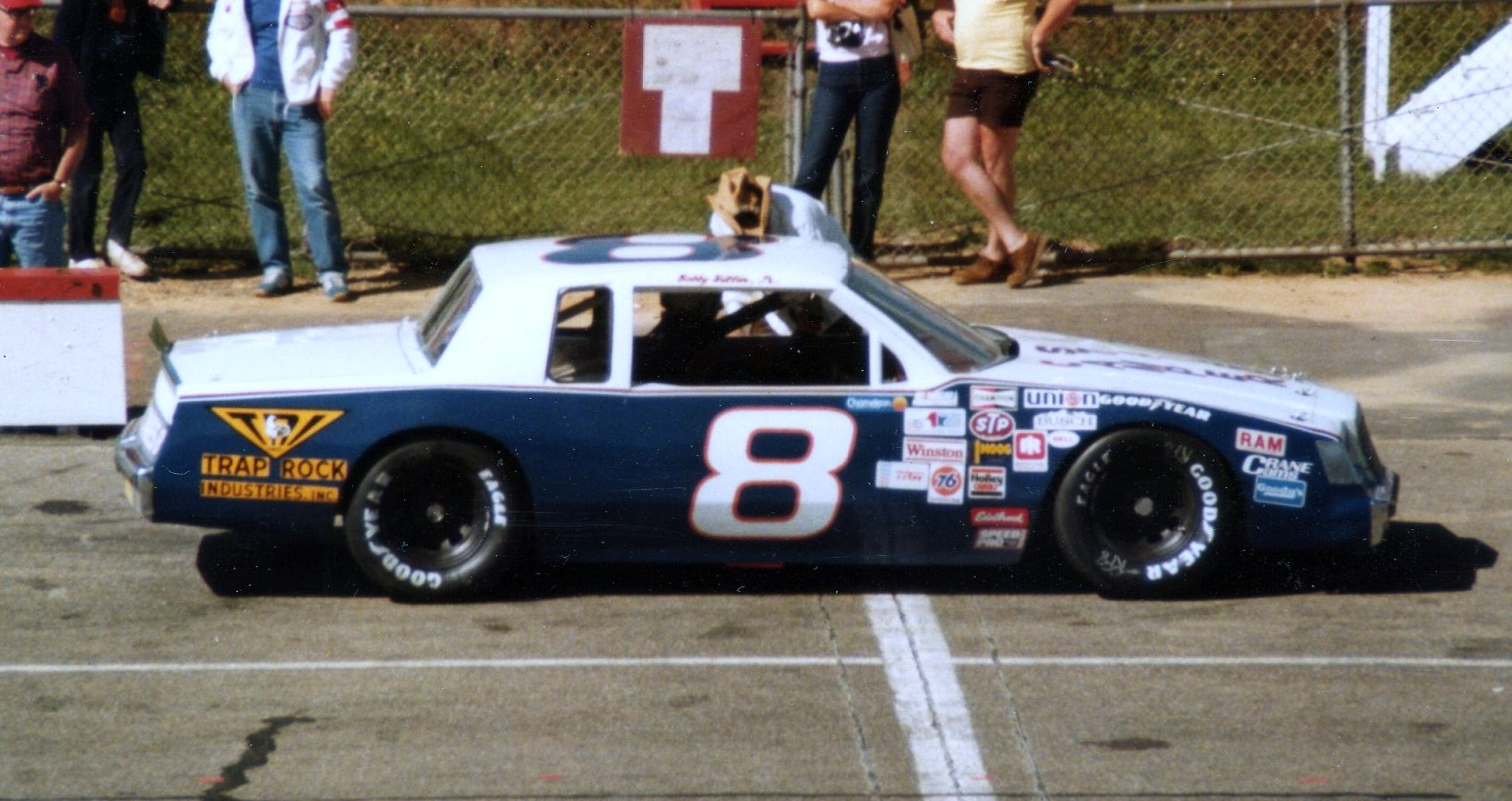 Bobby Hillin, Jr.'s No. 8 Stavola Brothers Racing Buick in the NASCAR Winston Cup Series Van Scoy Diamond Mine 500 at Pocono Raceway, June 10, 1984.